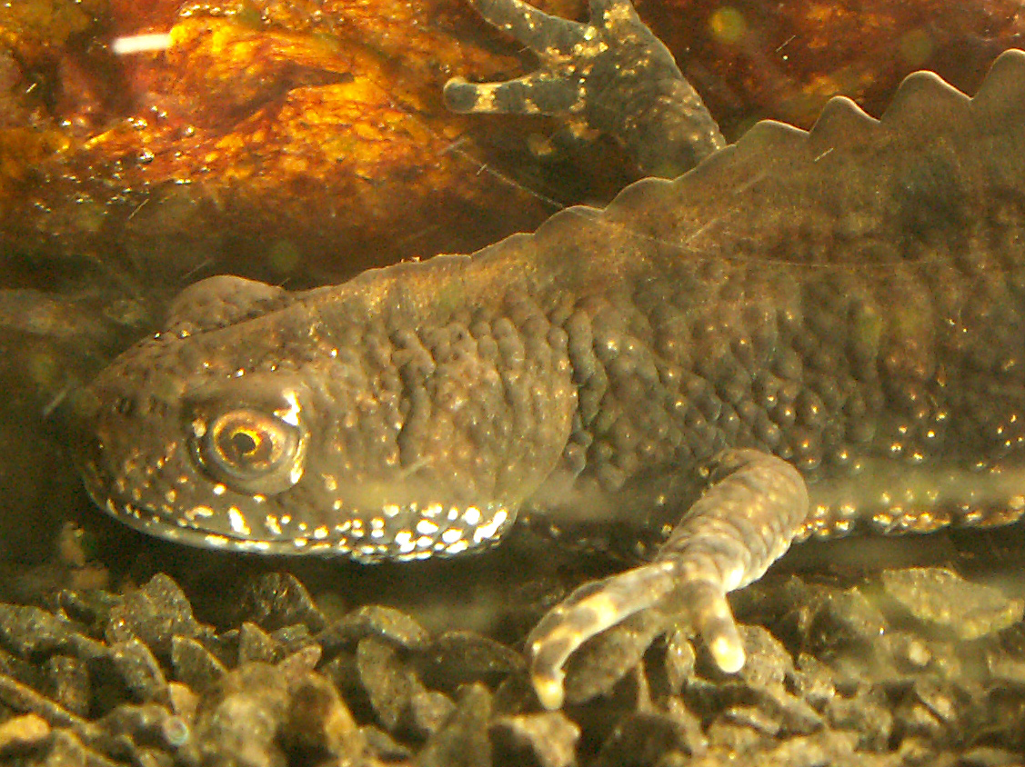 Triturus cristatus male in the first year with a small crest